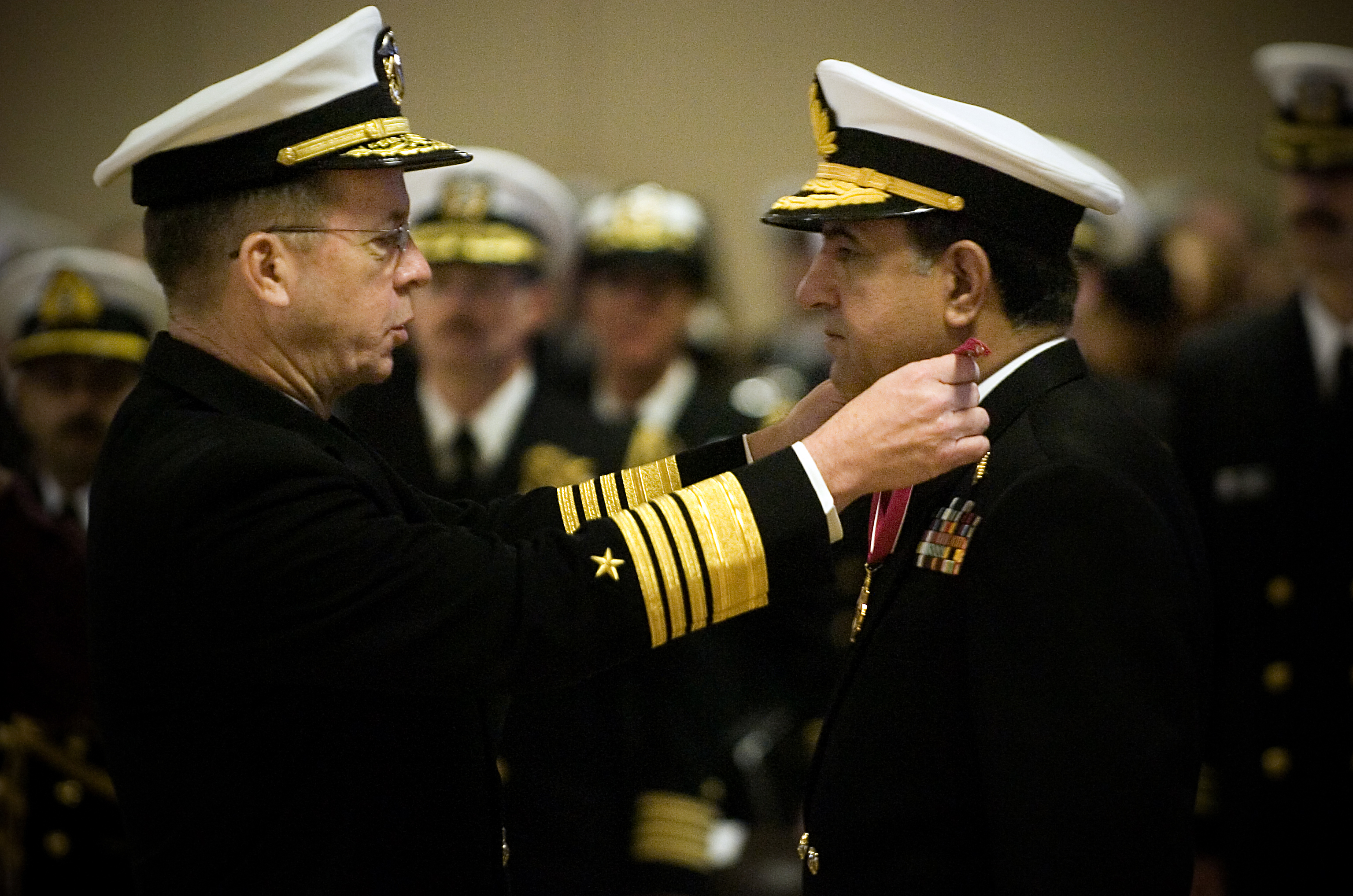 Washington, D.C. (Jan. 23, 2006) - Chief of Naval Operations (CNO) Adm. Mike Mullen presents Pakistani Chief of Naval Staff Adm. Muhammad Afzal Tahir with the Legion of Merit in recognition of his efforts in conducting maritime security operations and strengthening of cooperation between the two navies in the 5th Fleet area of responsibility. U.S. Navy photo by Mass Communication Specialist 1st Class Chad J. McNeeley (RELEASED)